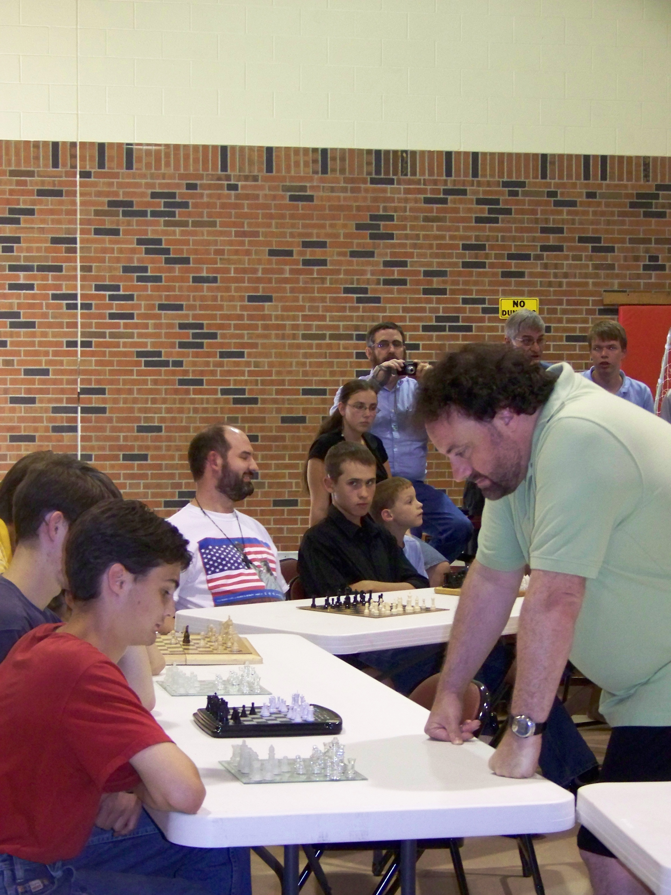 Jonathan Sarfati (right) playing chess against multiple players at the Heartland Creation Conference, Wichita, Kansas,.